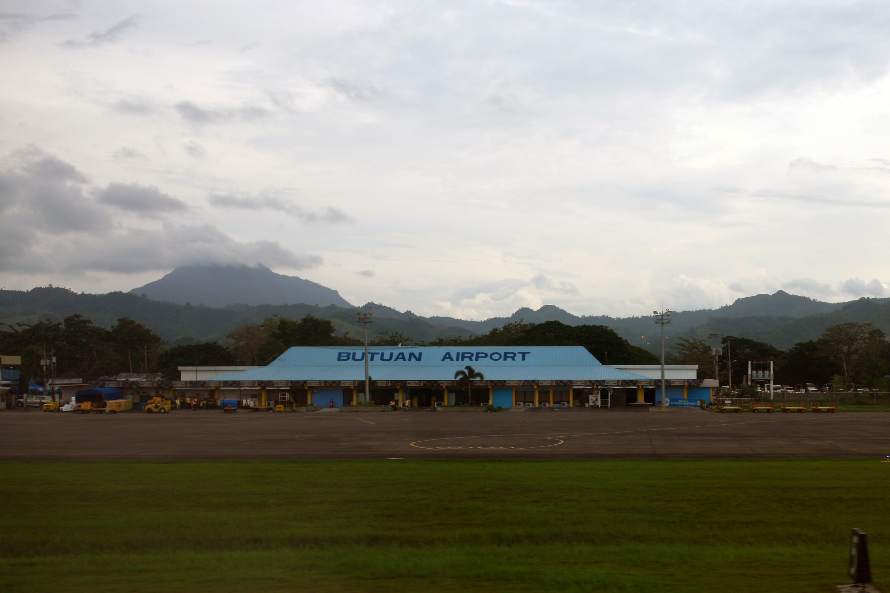 Butuan Airport, Philippines